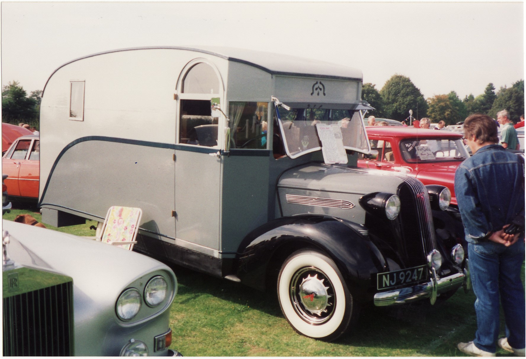 Pontiac Motorhome c.1936